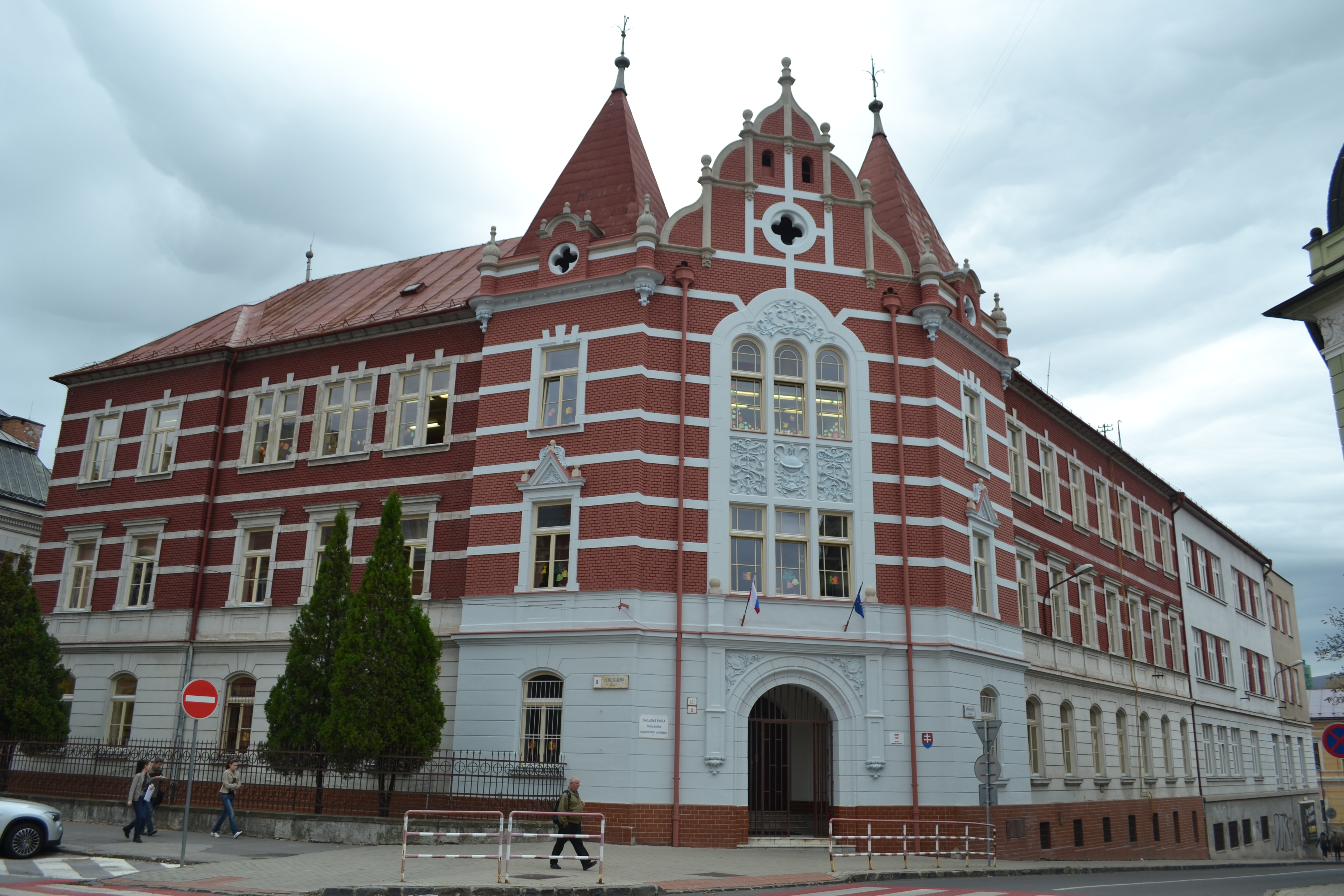 Freedom Slovak transmitter elementary School, Skutecký street 8, Banská Bystrica